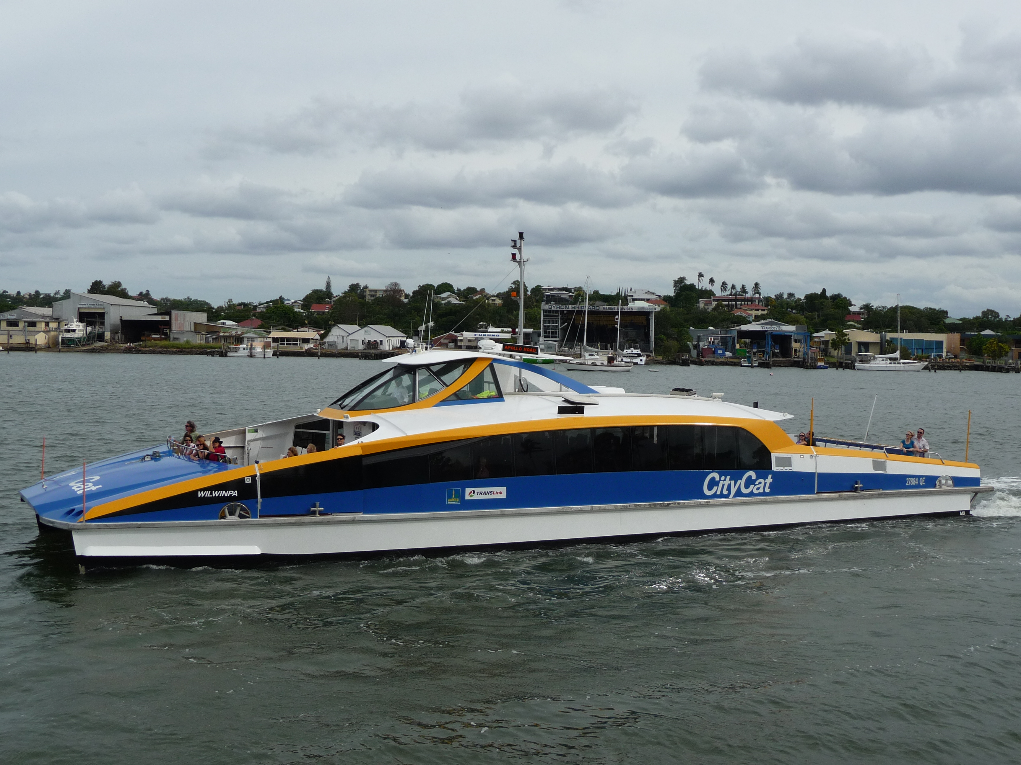 Wilwinpa second generation CityCat on the Brisbane river.